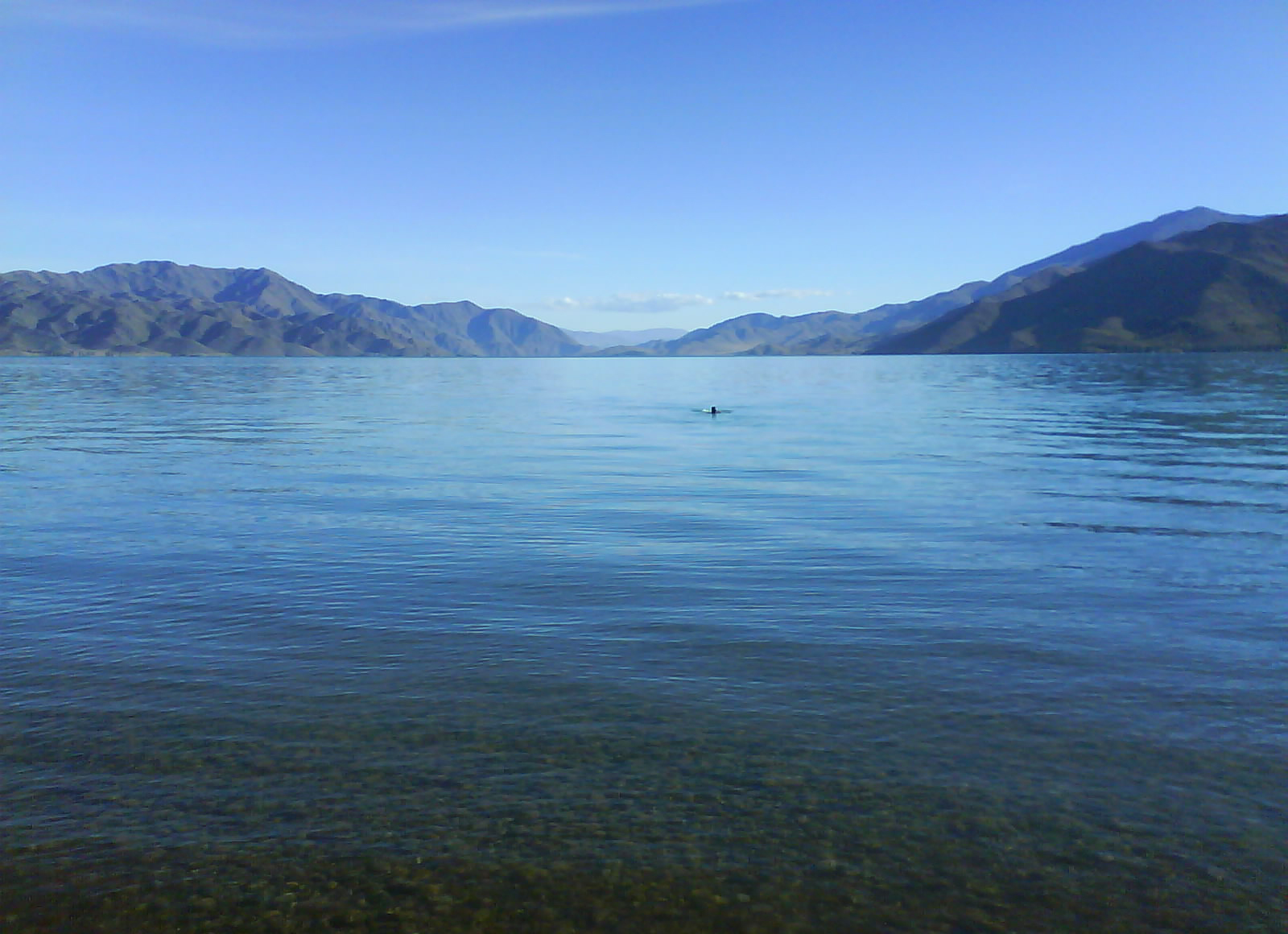 This is a photo of Lake Benmore, 5 February 2007. It is taken from near Haldon Arm (at the northern end) and is looking south.